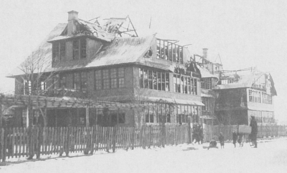 Sapporo Fuji High School (札幌藤高等女学校), After the fire